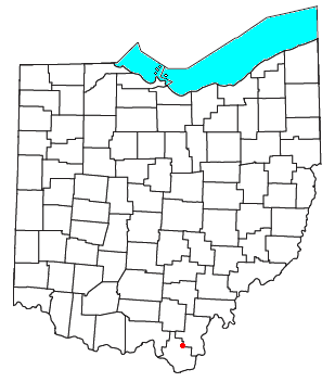 Locator map of the unincorporated community of Waterloo in Lawrence County, Ohio, United States.